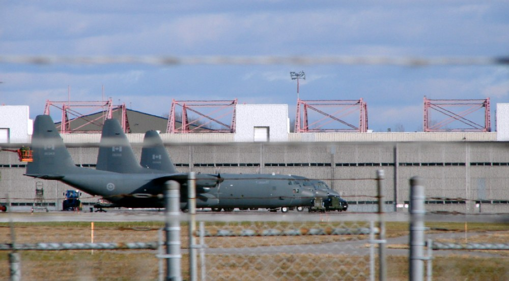 CC-130 Hercules at CFB Trenton, Ontario, Canada